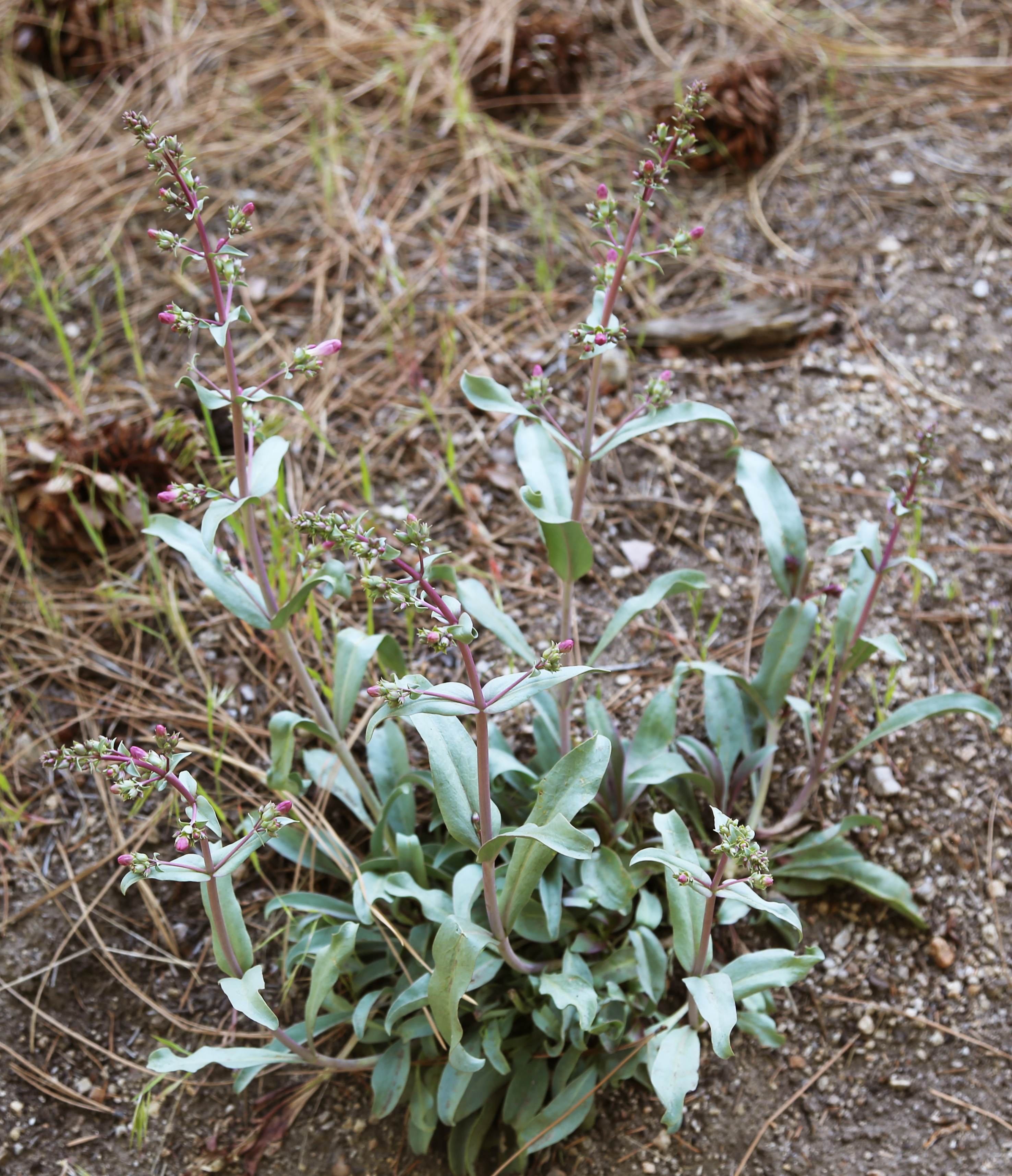 Owens Valley penstemon (Penstemon patens), plant with base of gray-green leaves and several stems with flowers in bud stage. At 6,200 ft (1,900 m) on west side of Lower Rock Creek, MonCounty, California, in the Eastern Sierra Nevada.